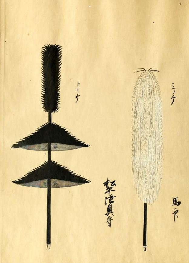 Nabeshima Tadanao Battle Standard (white heron feathers); Date Masamune Large Battle Standard (double black feather hats with silver interiors topped by black feather pole)